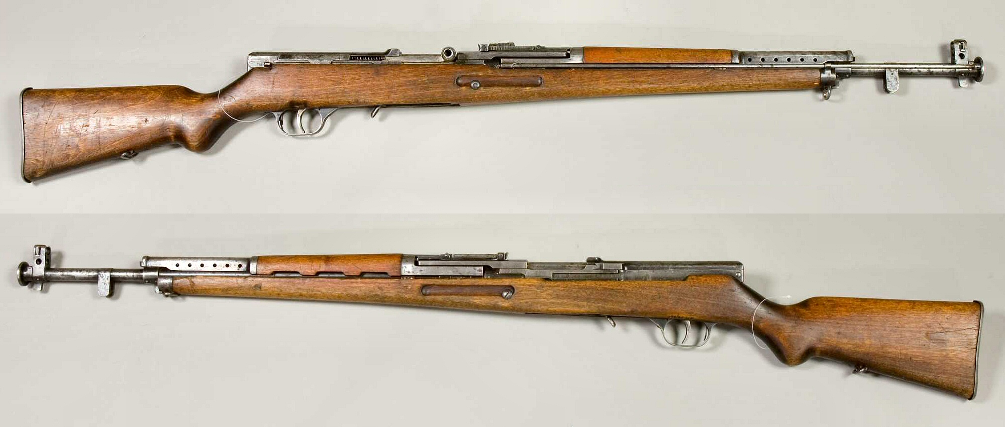 AVS-36 Russian semi-automatic rifle (1936), without magazine. Caliber 7,62x54mmR. From the collections of Armémuseum (Swedish Army Museum(, Stockholm, Sweden.